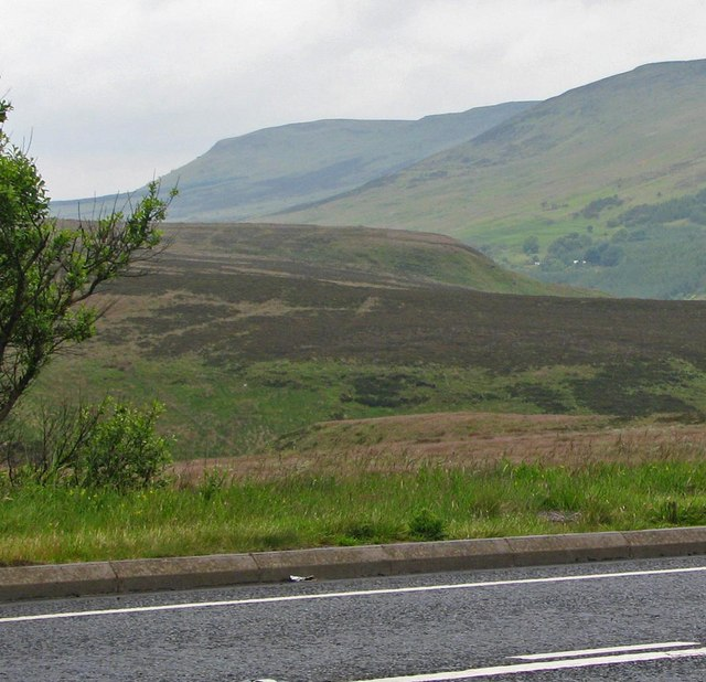 Sperrin Mountains near Glenshane Pass